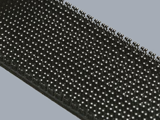 Textile closure Dual Lock.